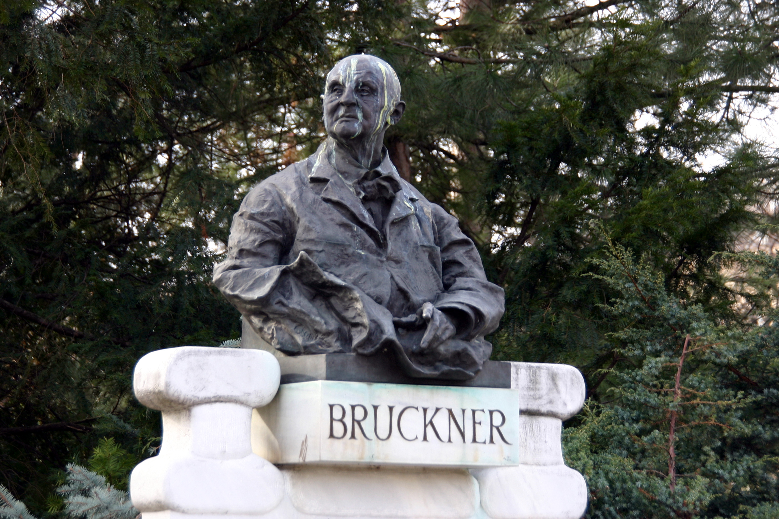 Stadtpark, Vienna